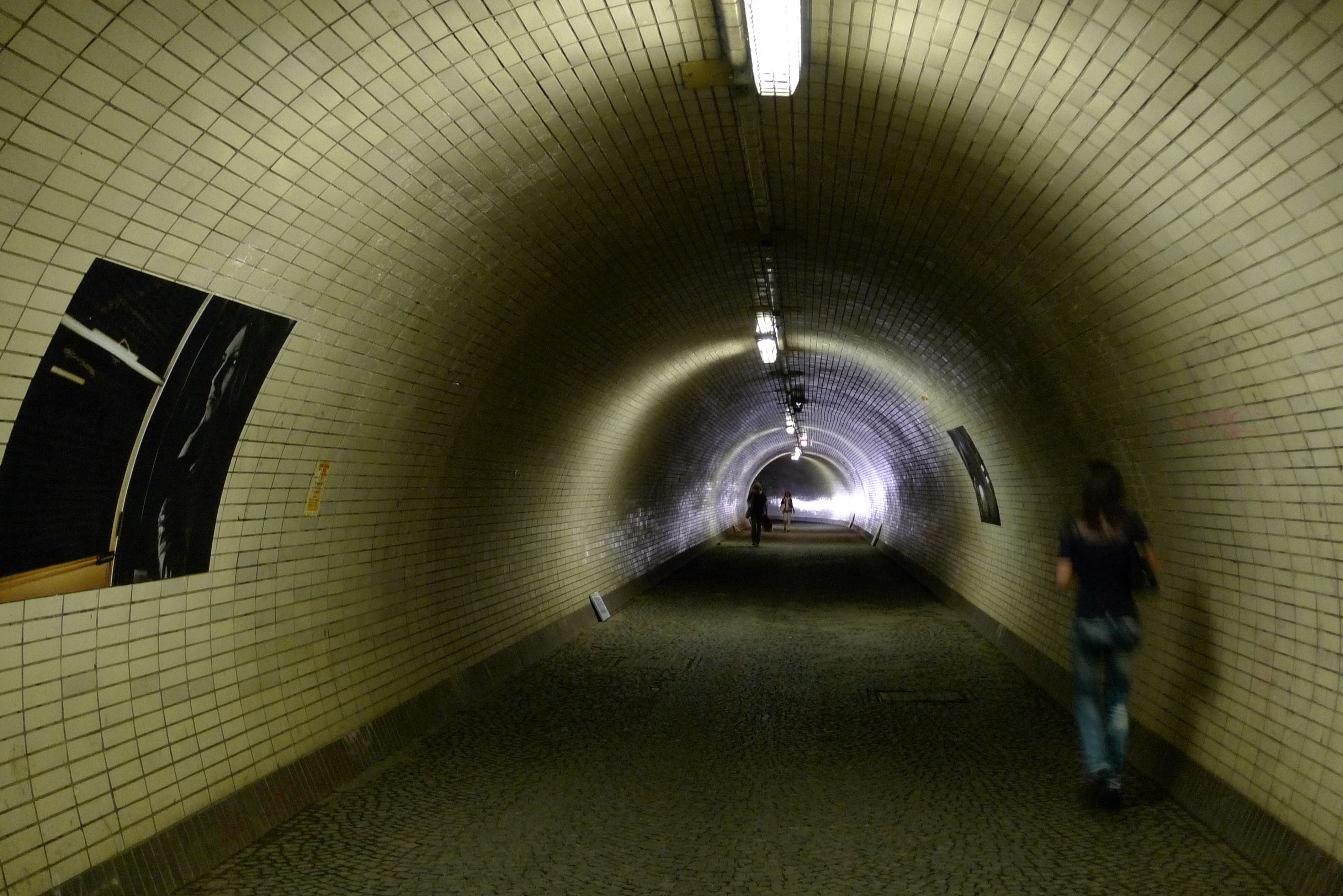 Pedestrian tunnel at Prague-Karlín, Czech Republic, photographs by Jiří Turek Česky: Pěší tunel mezi Karlínem a Žižkovem v Praze, na stěnách fotografie Jiřího Turka